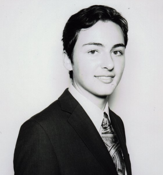 A portrait of Mason Shefa.